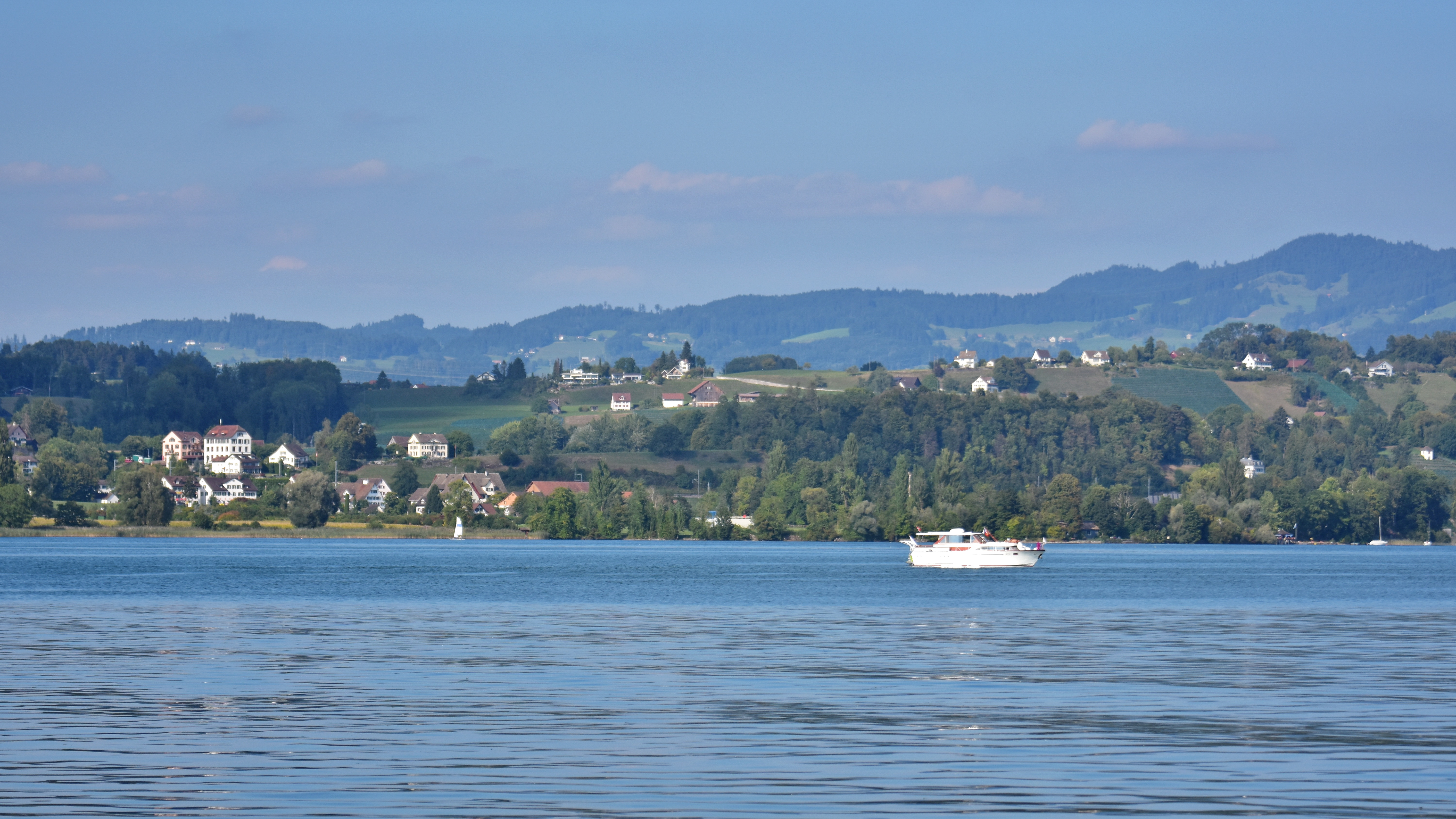 Bachtel mountain and Feldbach as seen from ZSG ship MS Helvetia on Zürichsee in Switzerland